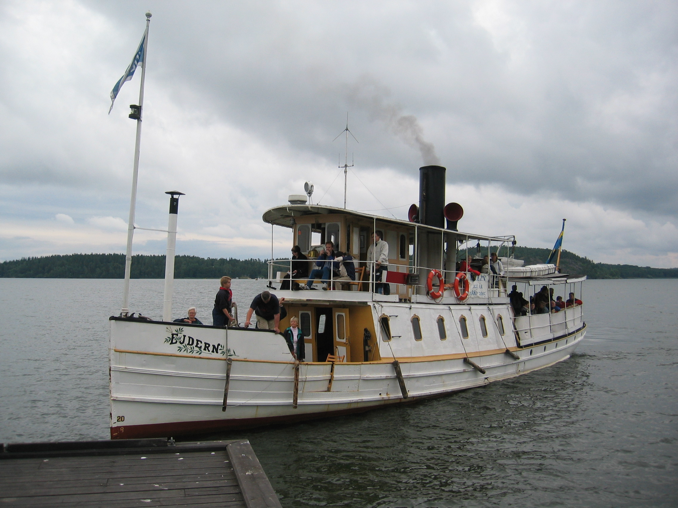 S/S Ejdern in Lake Mälaren.